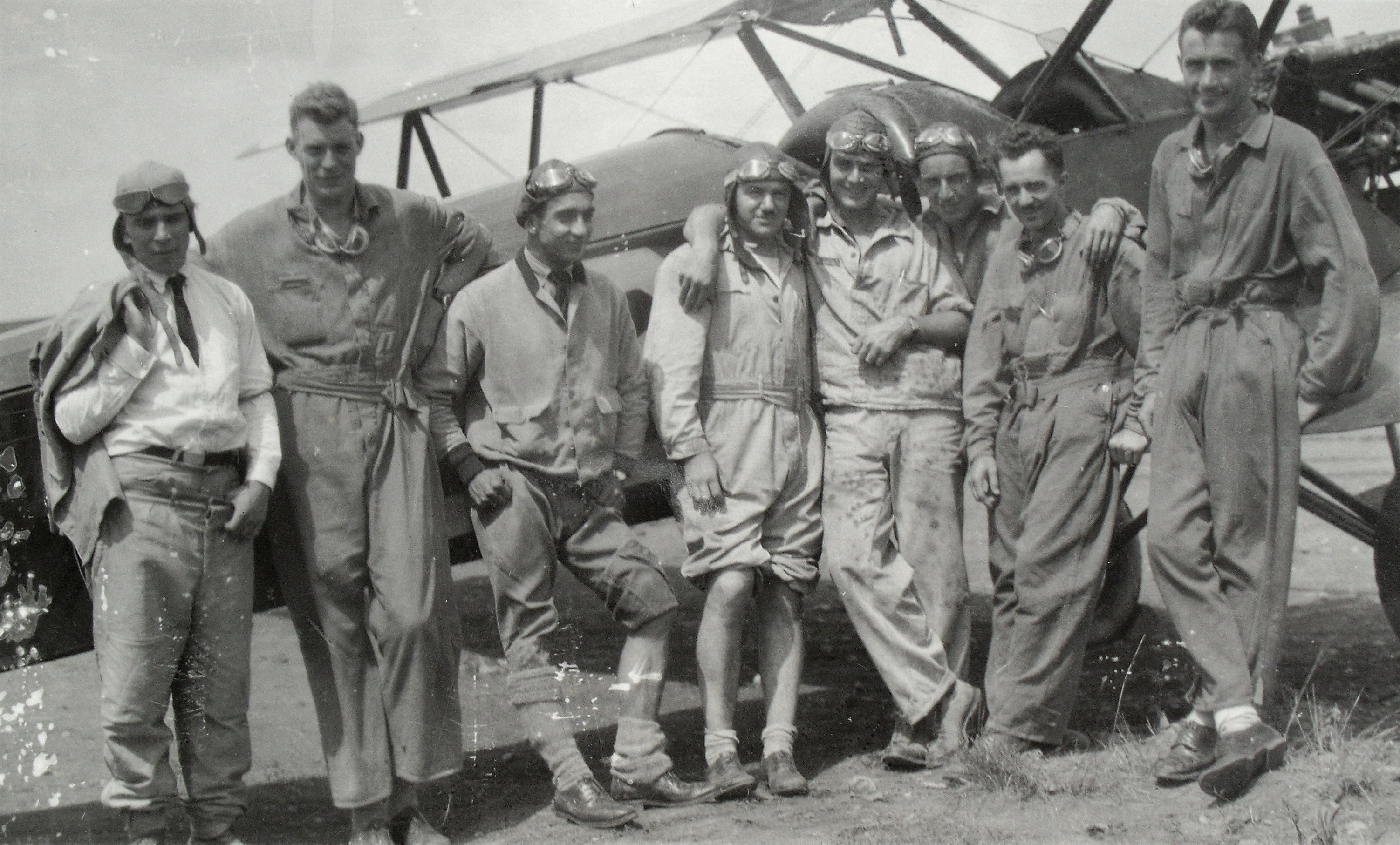 Mexican Air Force pilots c. 1924-1929. From L to R: Alfredo Lezama Alvarez, X, Manuel Solís, followed by Rafael Ponce de León; the seventh pilot is the squadron leader: Roberto Fierro Villalobos. Please notify the others' identity at Porfavor notifique la identidad de los otros pilotos escribiendo a